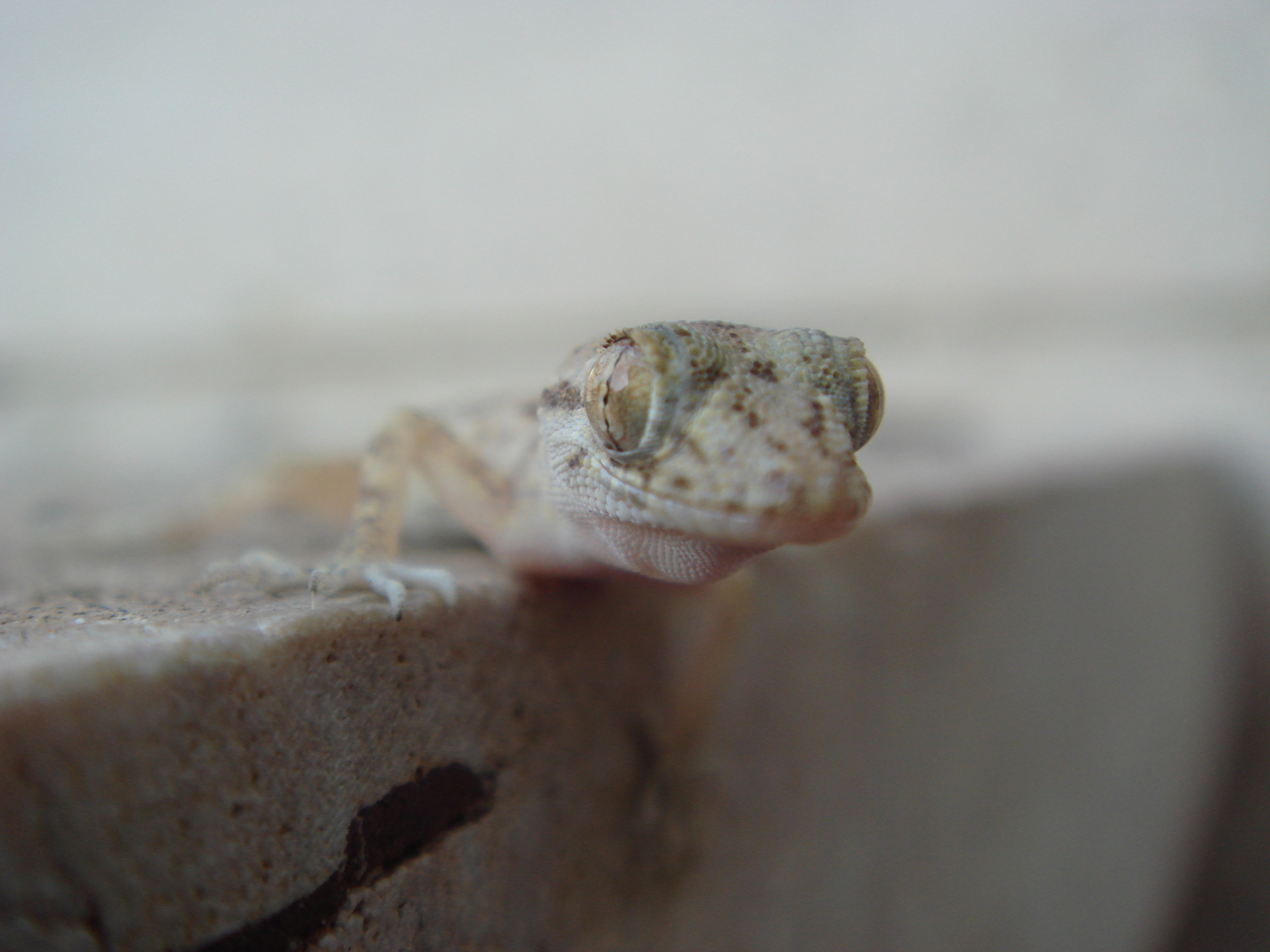 a baby Sauria in iran